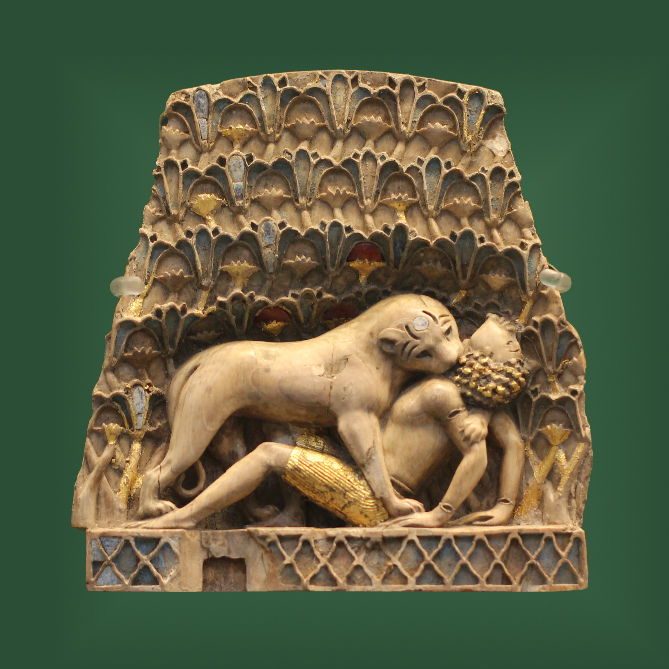 A lioness devouring a man in a thicket of stylized lotus and papyrus plants. Phoenician